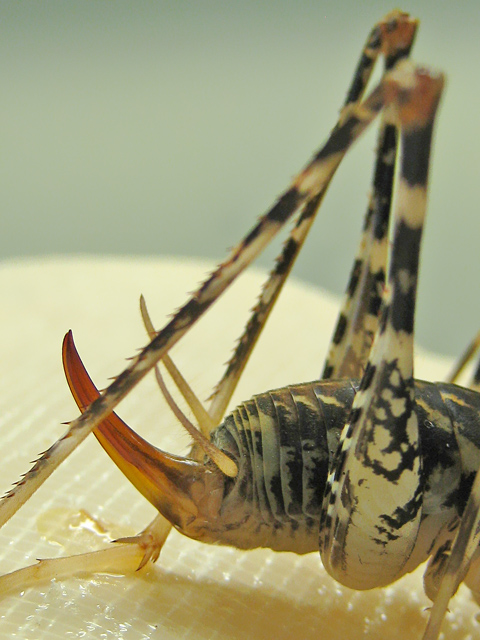 Abdomen of KAMADOUMA